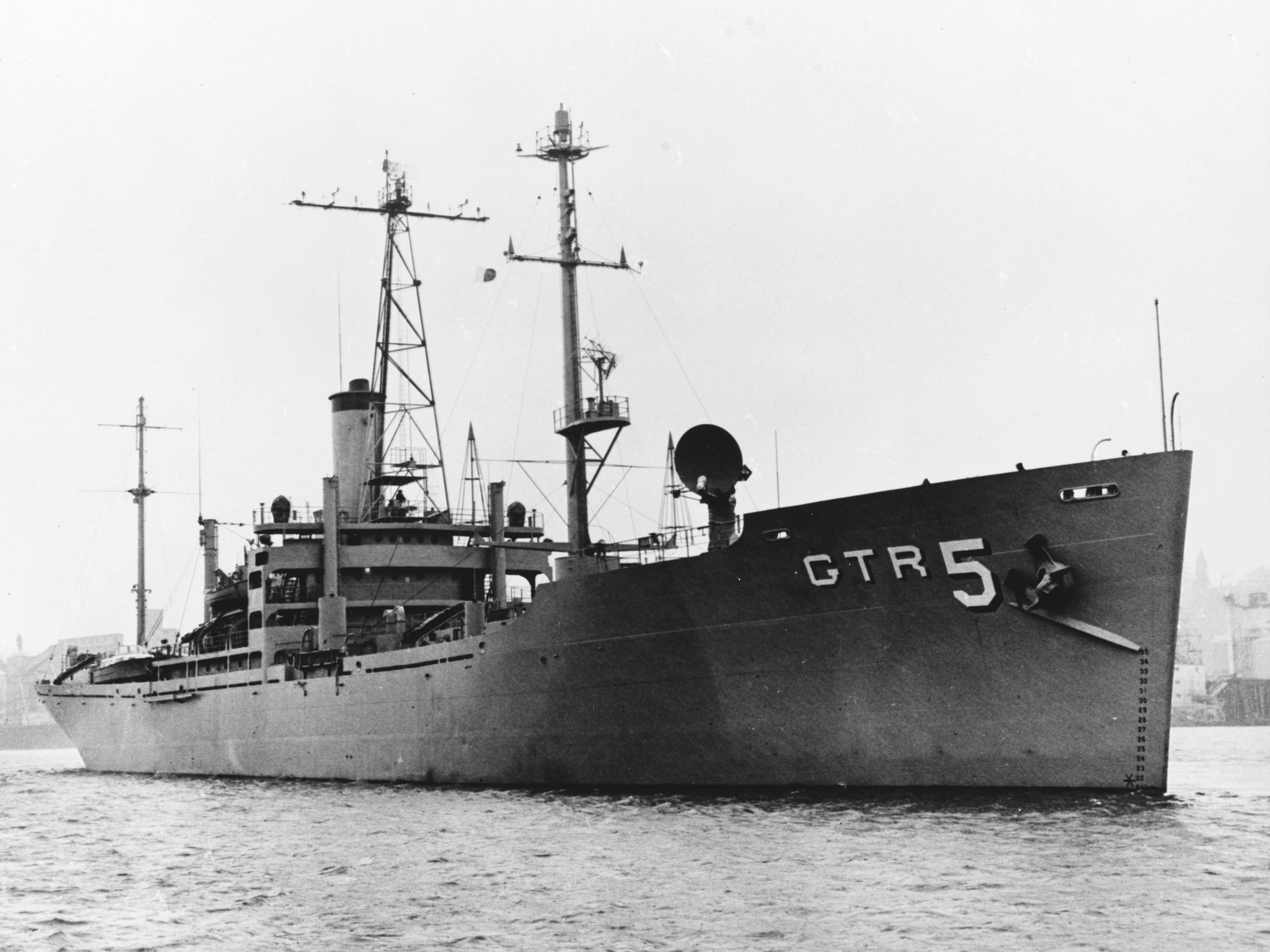 The U.S. Navy electronic reconnaissance gathering ship USS Liberty (AGTR-5) photographed circa 1966.